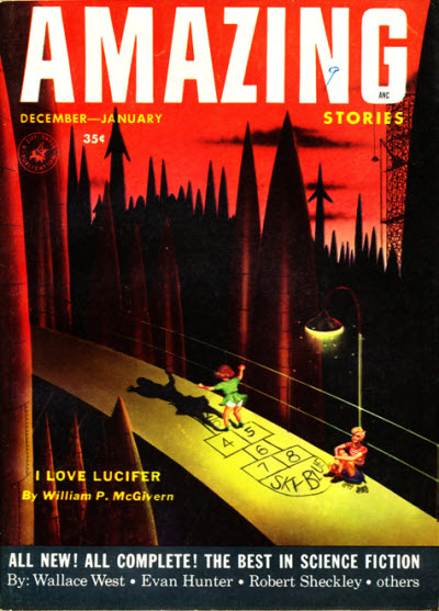 Cover of Amazing Stories, December 1953-January 1954